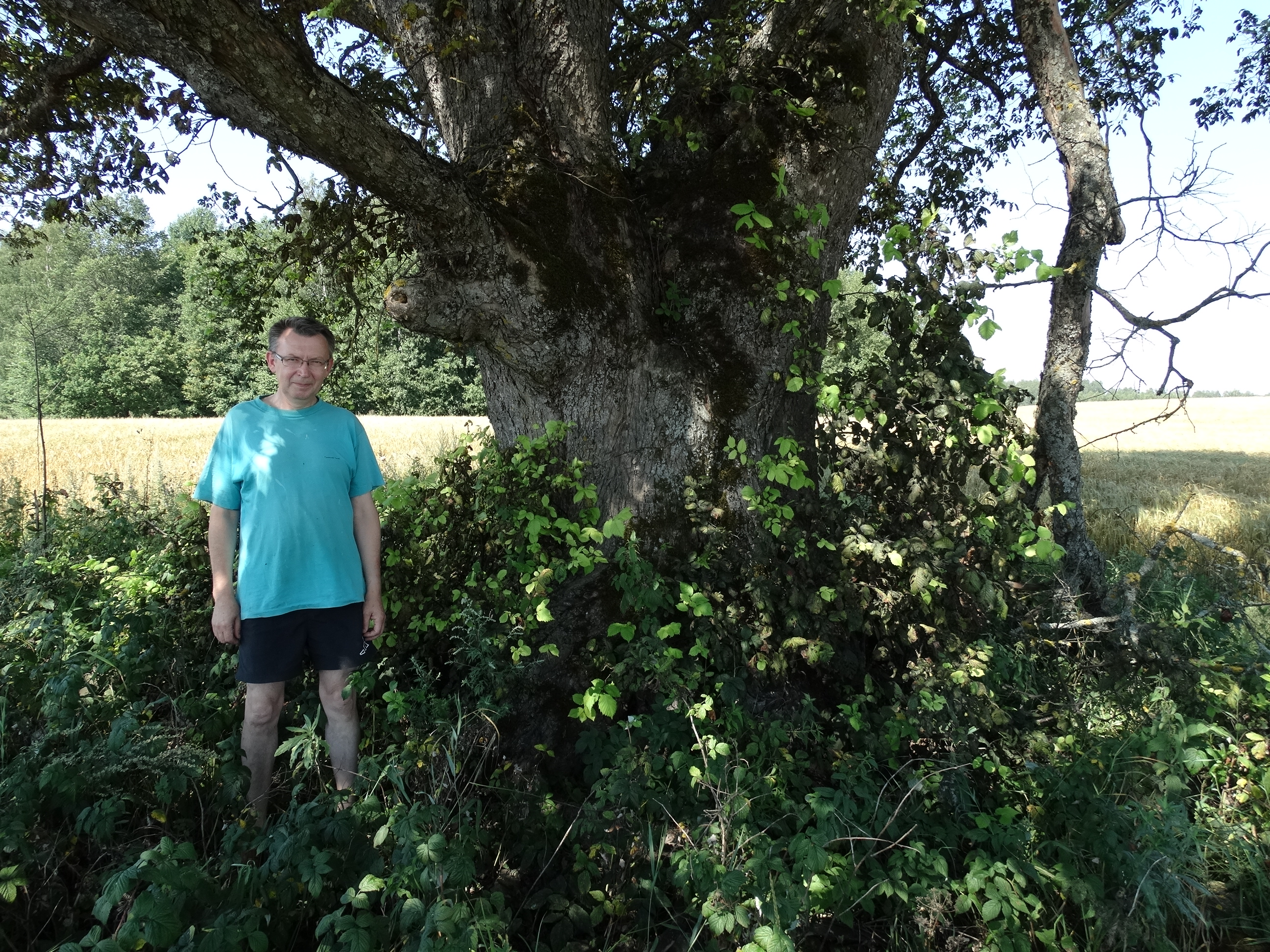 Ulmus glabra tree in Mataučizna, Rokiškis District, Lithuania